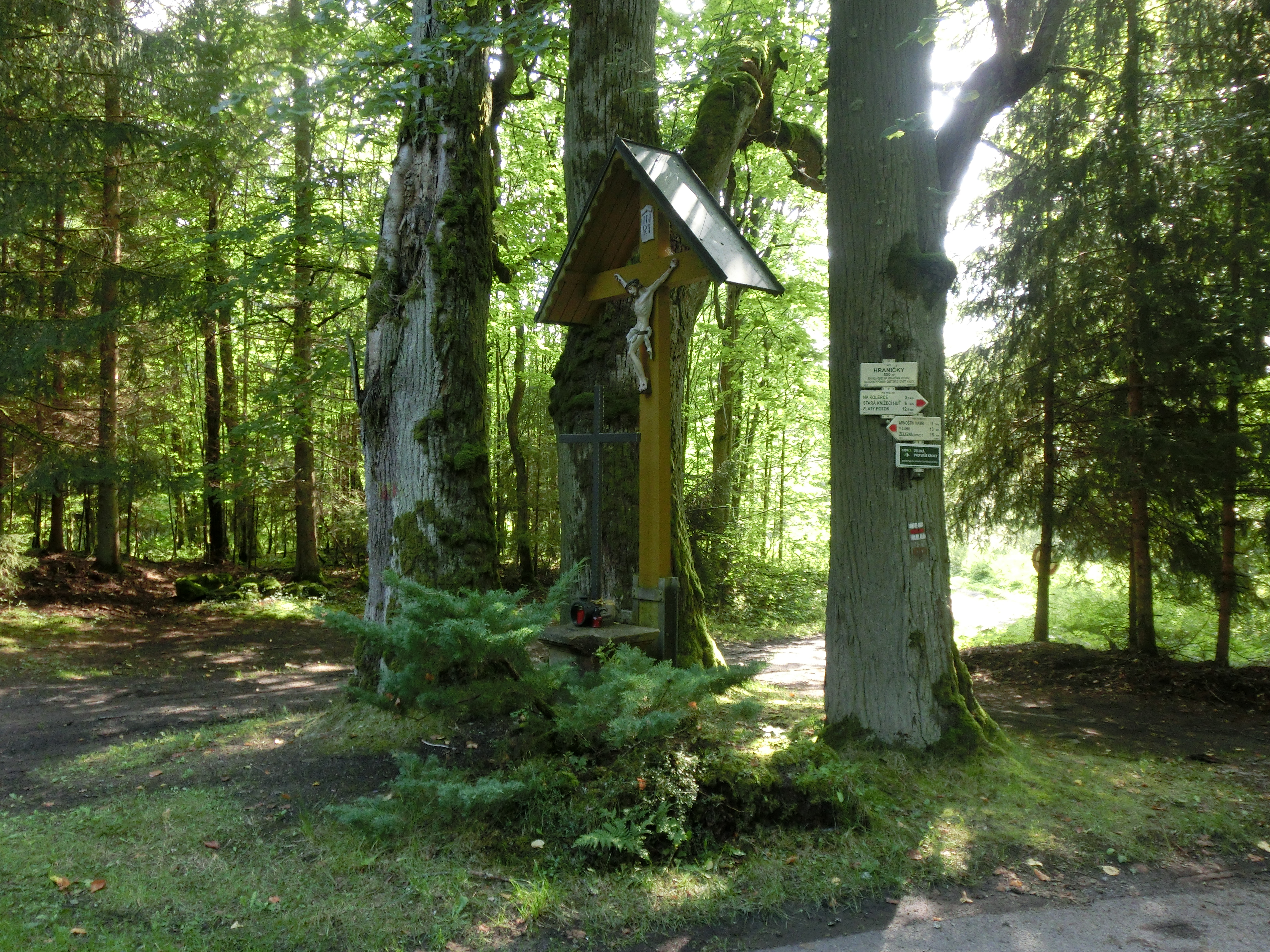 Abandoned village Hraničky (german: Reichenthal) in Rozvadov: Three tilias with wooden cross